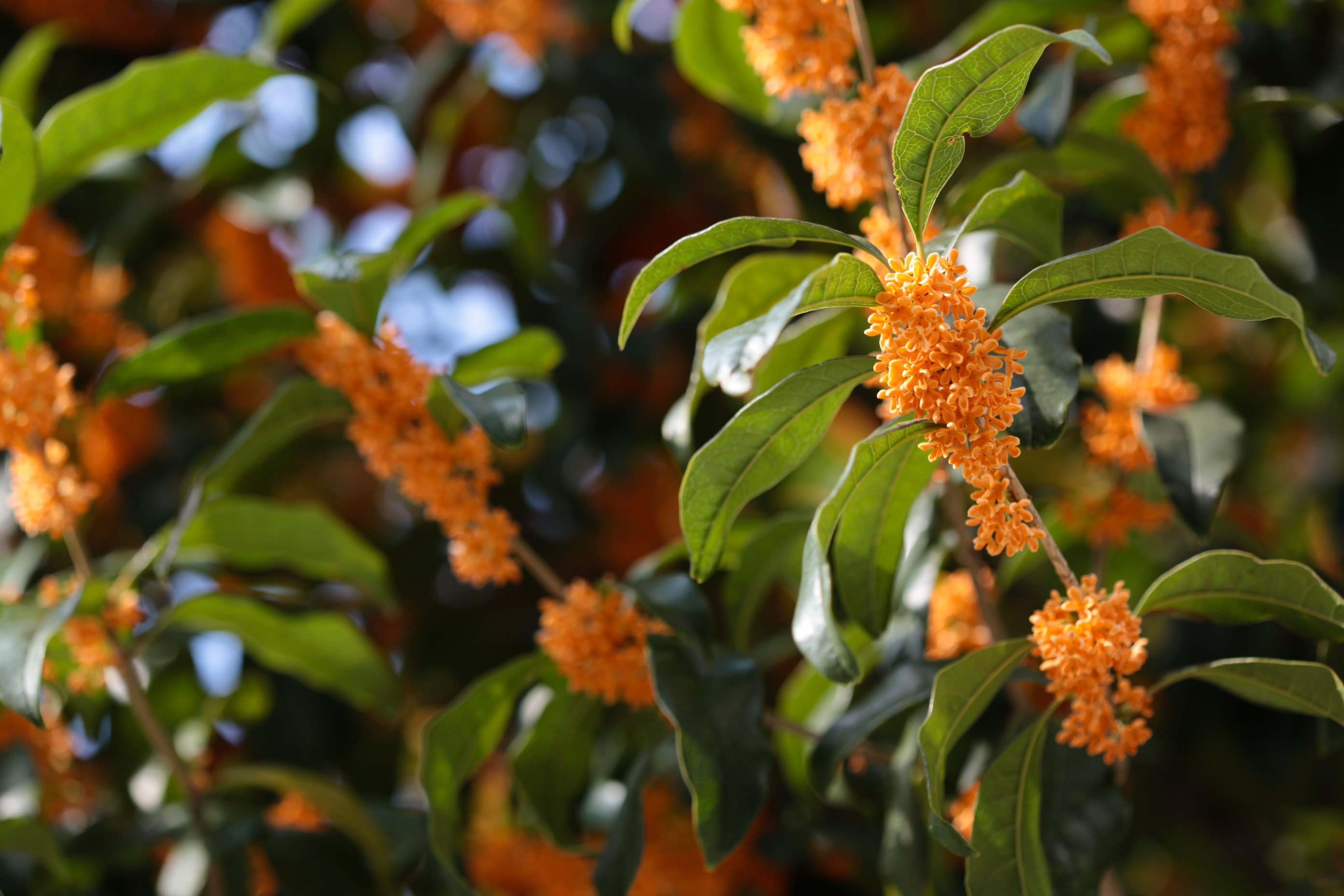 Osmanthus fragrans with orange flowers. Shot in Kobe, Japan.